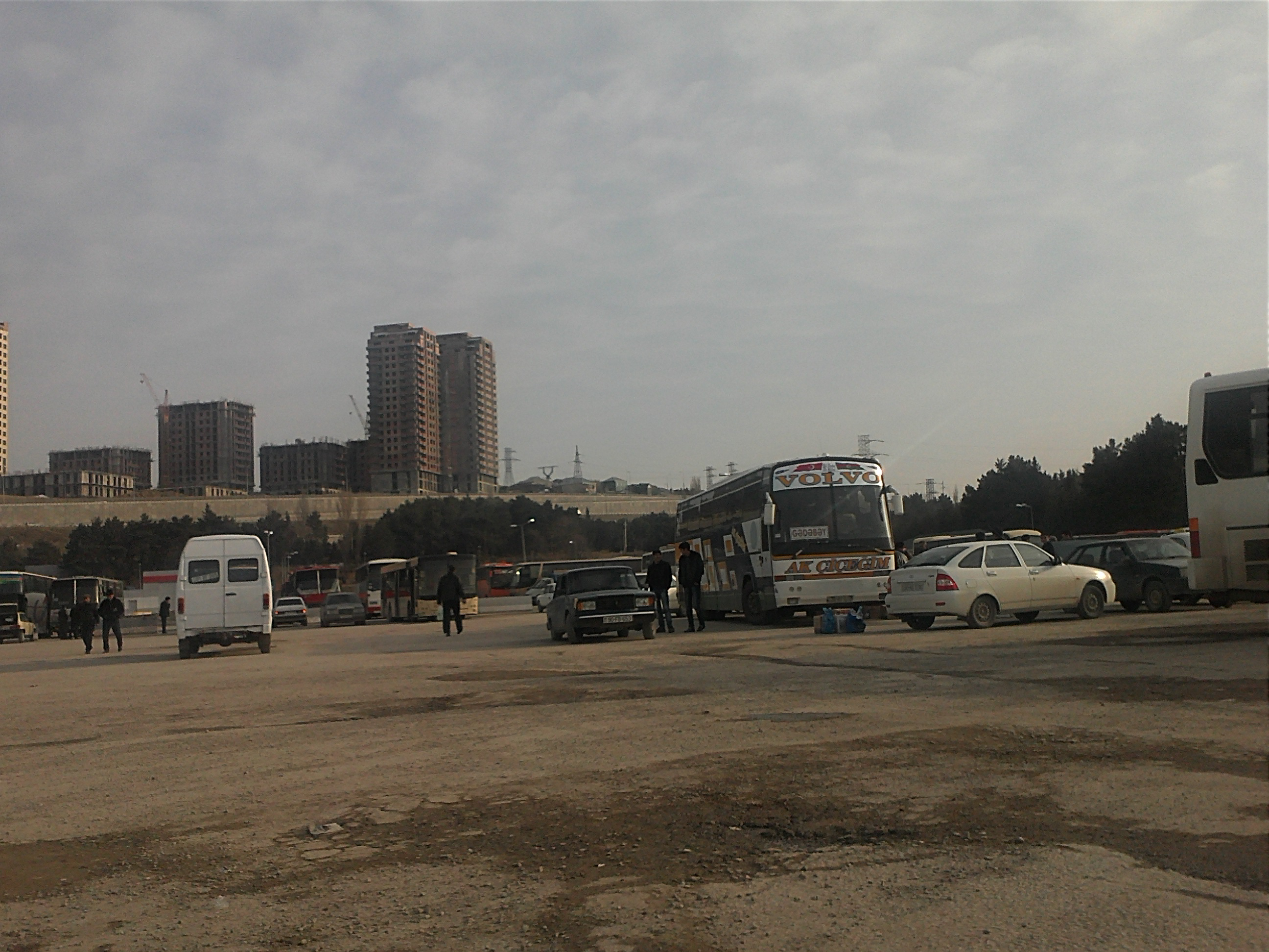 Baku International Bus station - 2012